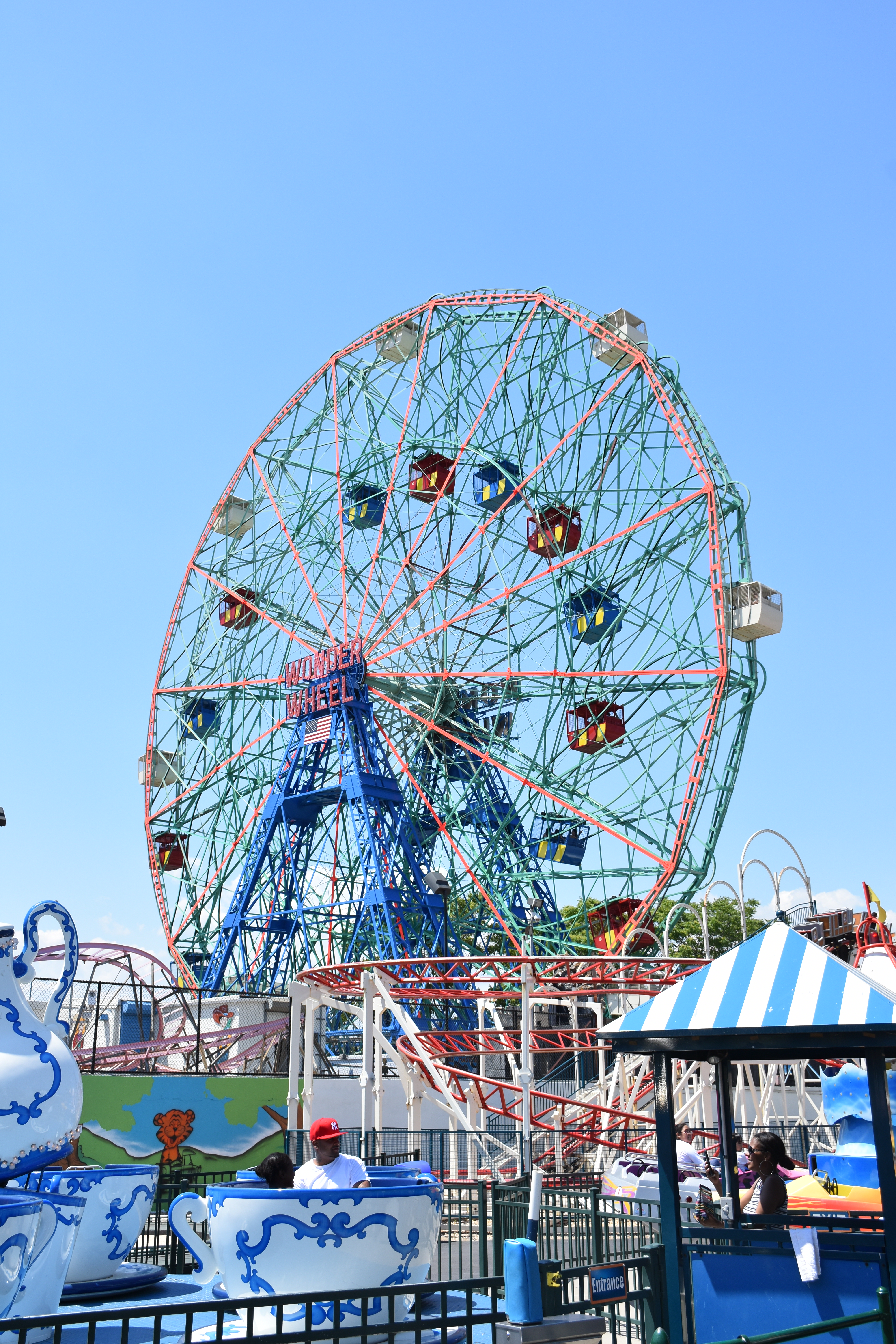 The Wonder Wheel in Coney Island, New York City in June 2016